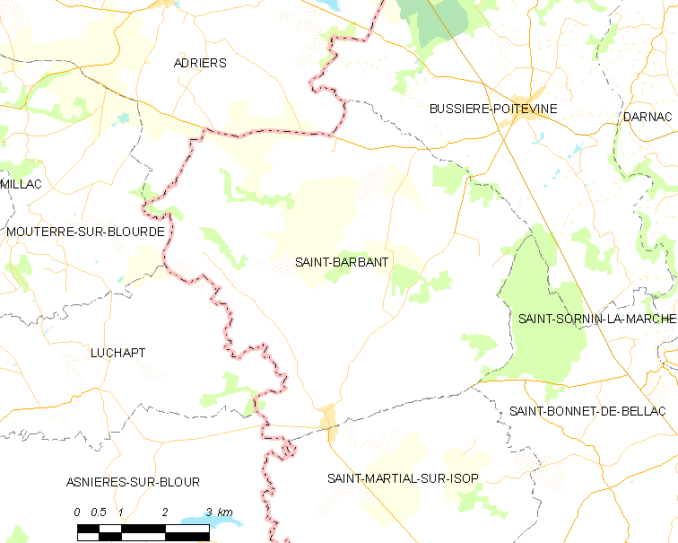 Map of French municipality Saint-Barbant